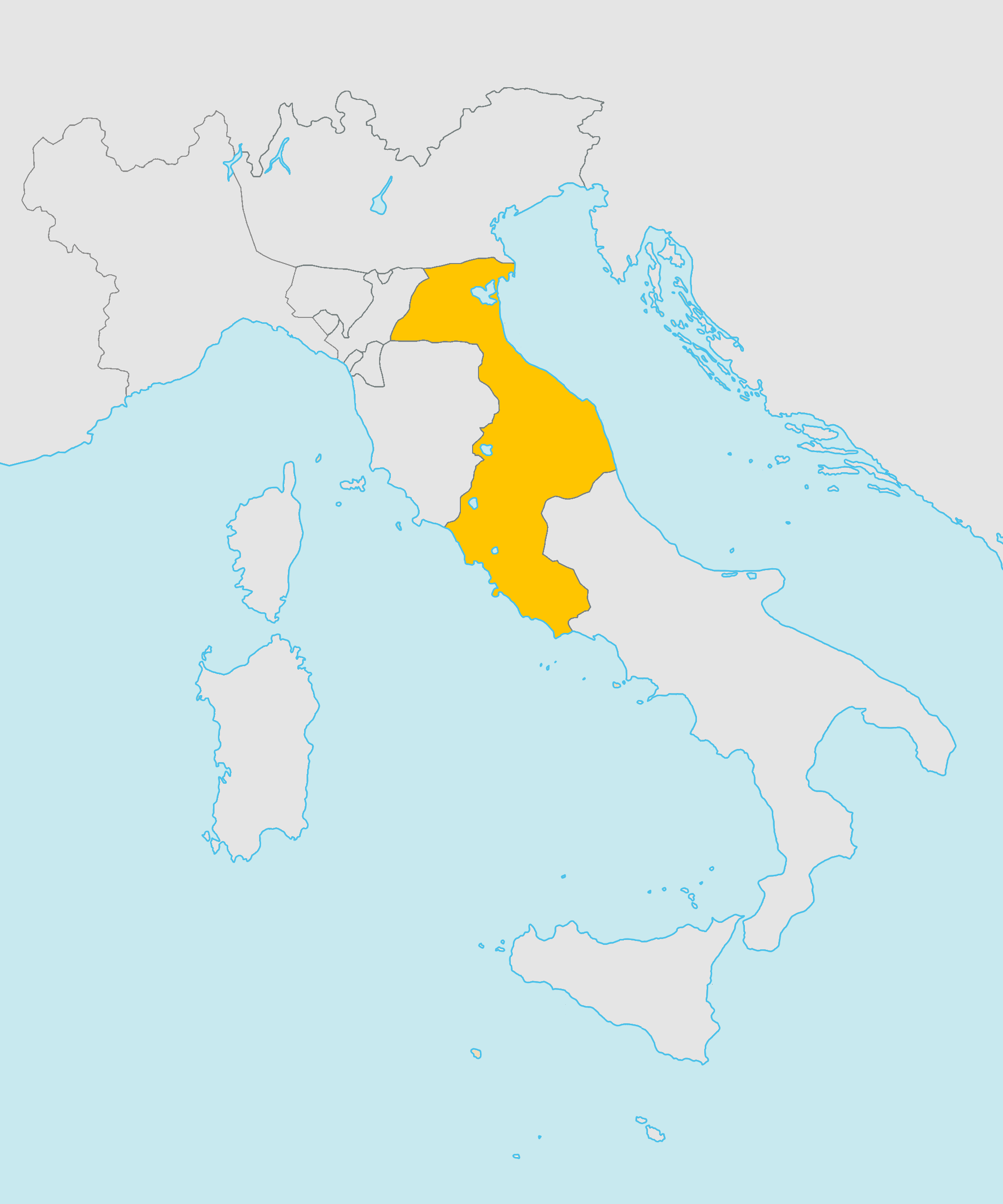 Papal State within Italy.